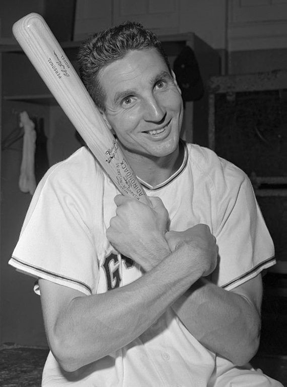 PRESS PHOTO BOBBY THOMSON AFTER HITTING A GRAND SLAM AT POLO GROUNDS